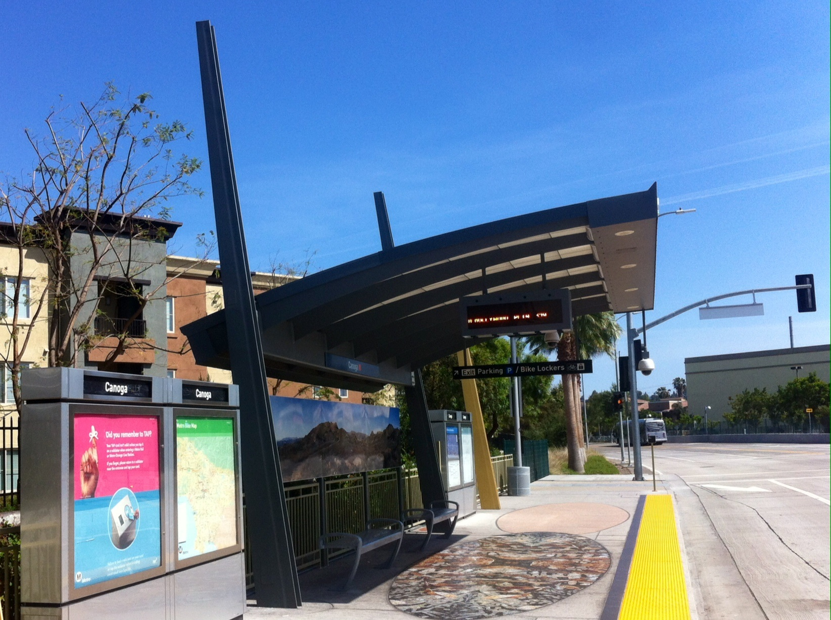 The platform view of Canoga Station.